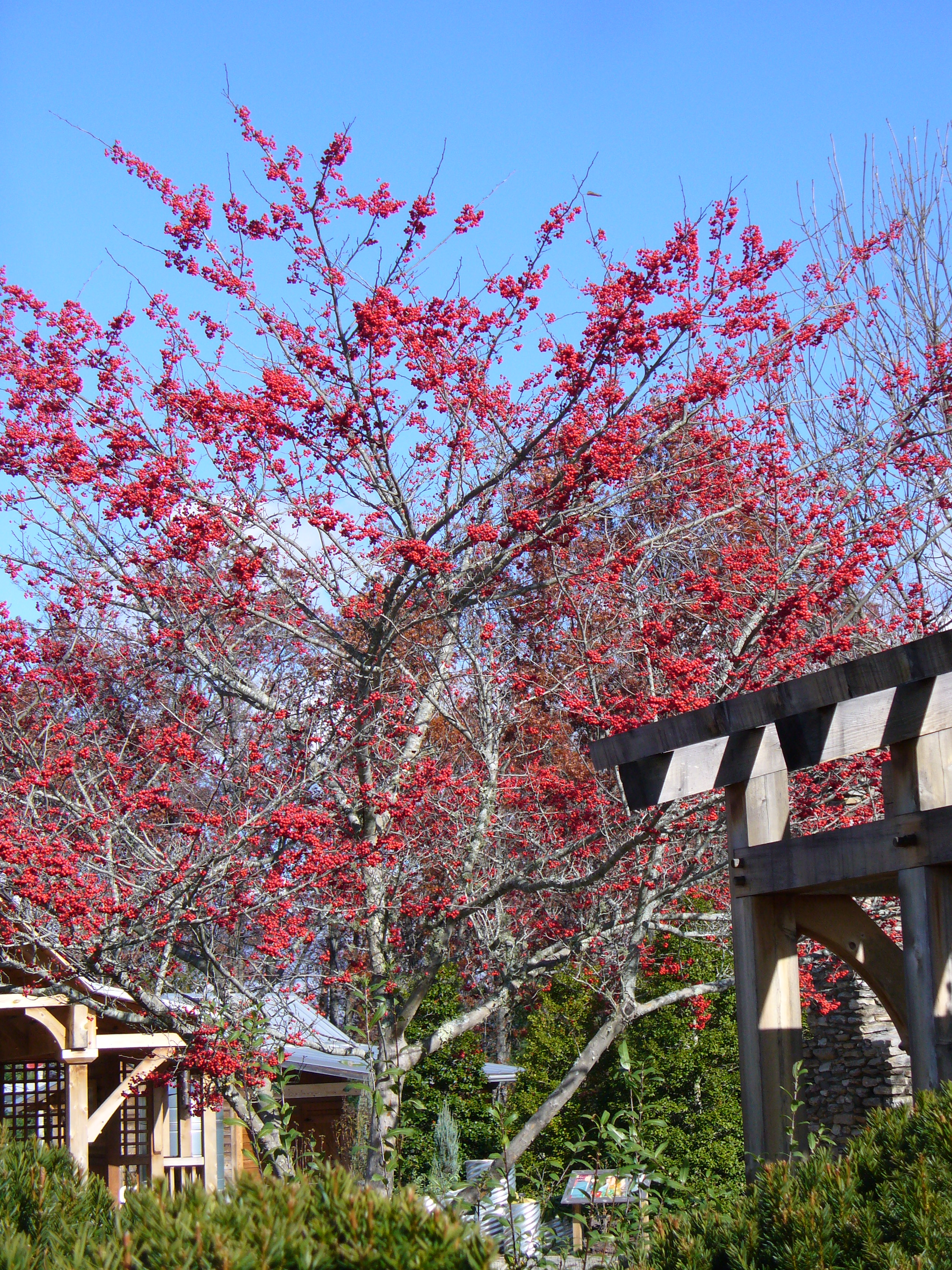 Crataegus viridis 'Winter King', North Carolina Arboretum, Asheville, North Carolina, USA.